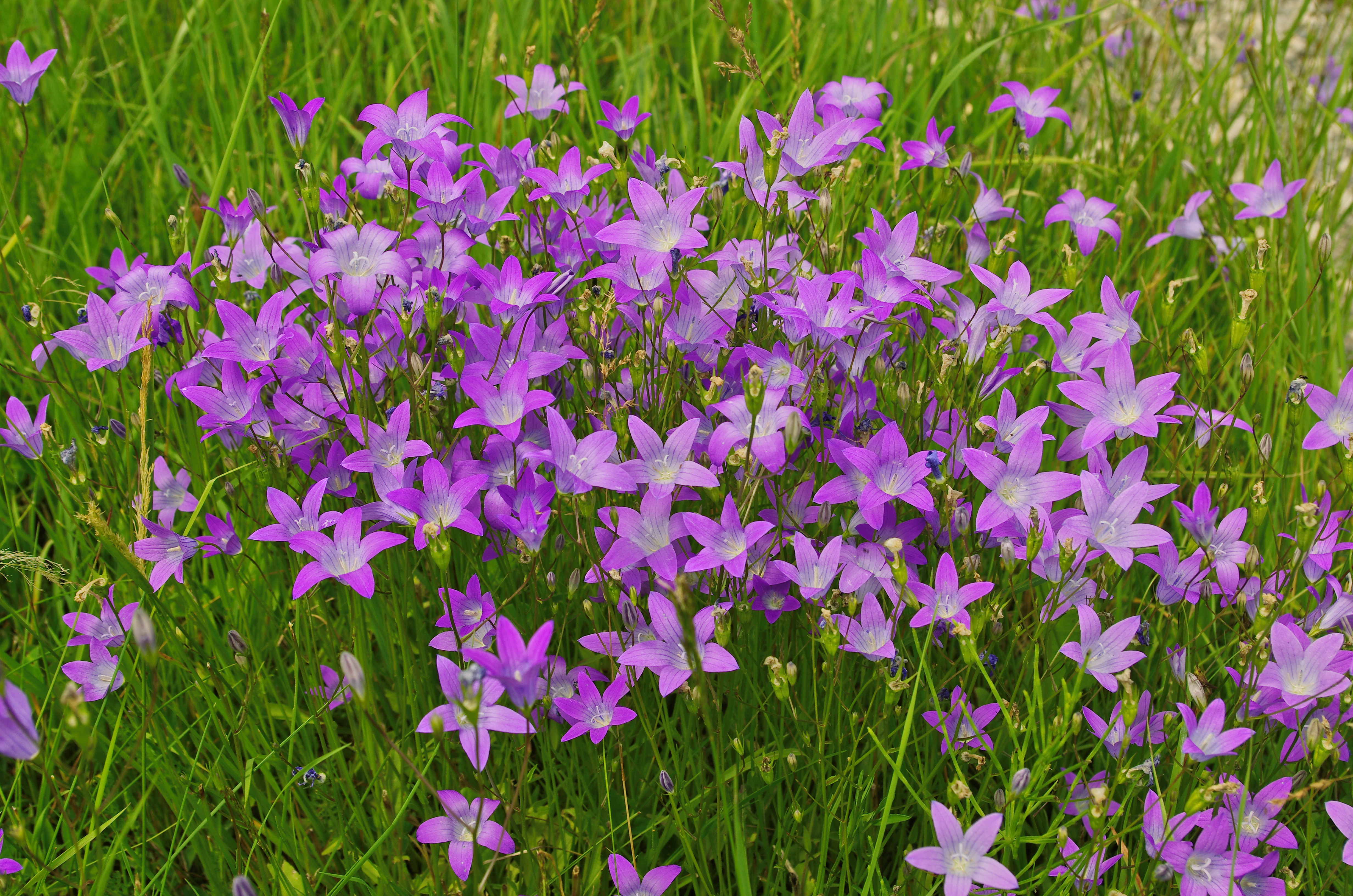 Campanula patula near Schöchleins, Mistelgau, Germany